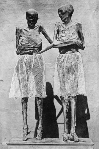 Openbare zeden. Twee mummies in het museum van Madrid die op last van de aartsbisschop een rokje aanmoesten omdat 'naakt' ook voor mummies ontoelaatbaar was. 1925.